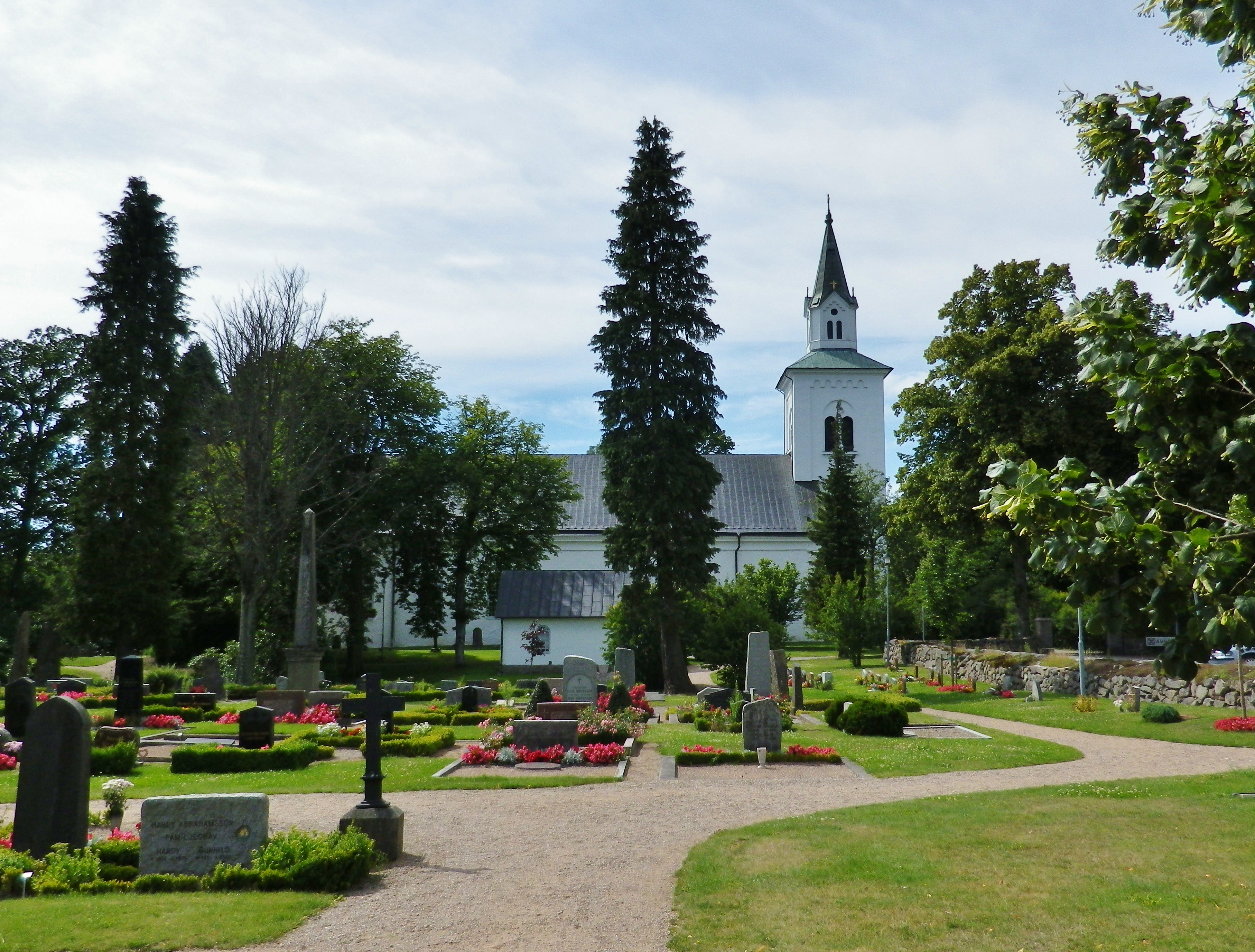 Augerums Church and cemetery